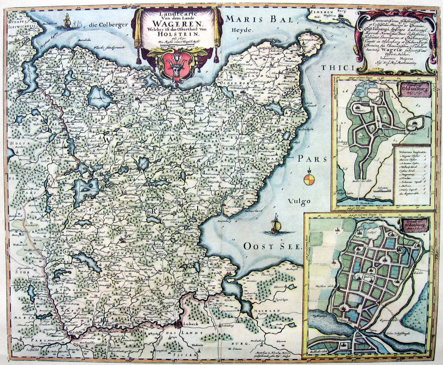 Historic map of Wagrien, today located in northern Germany